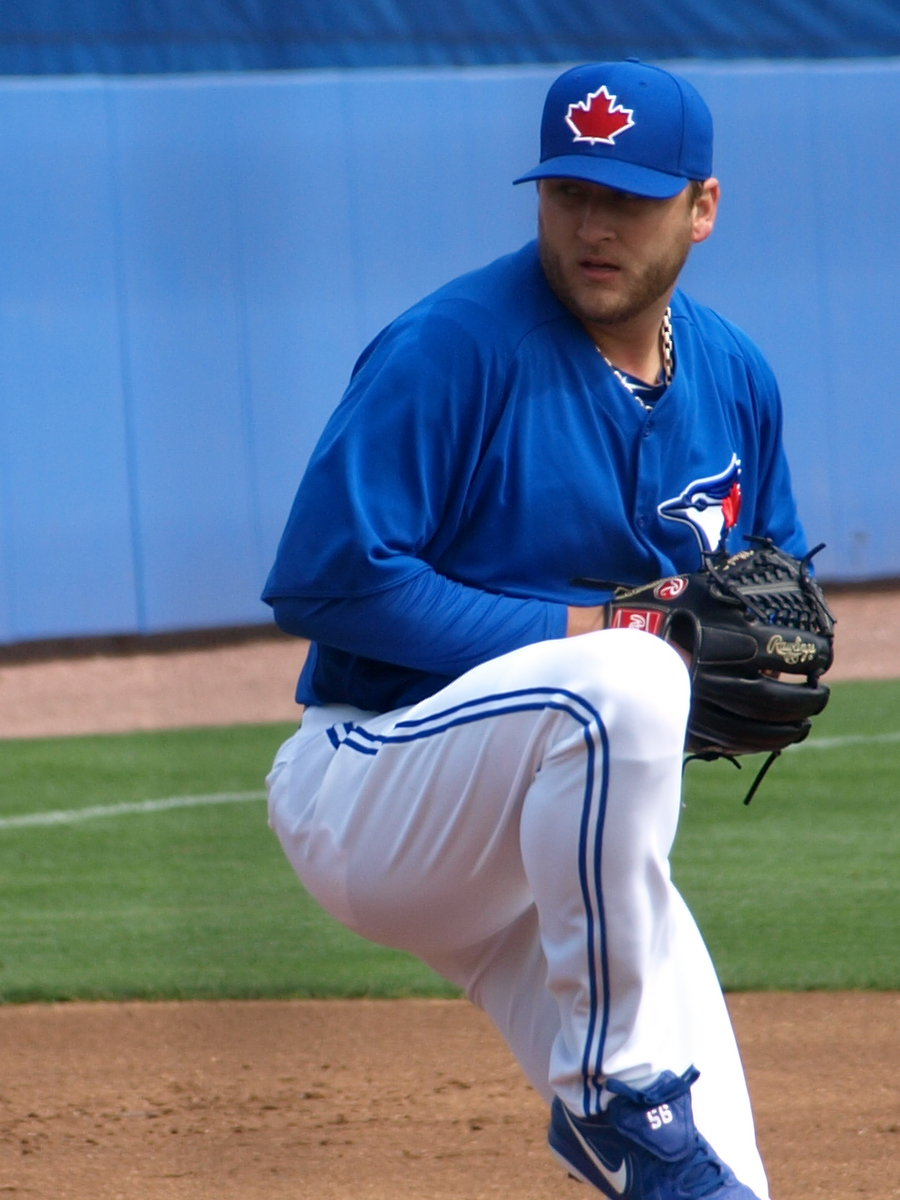 Toronto Blue Jays pitcher Mark Buehrle pitches during a spring training game on March 1, 2013, at Florida Auto Exchange Stadium in Dunedin, FL.